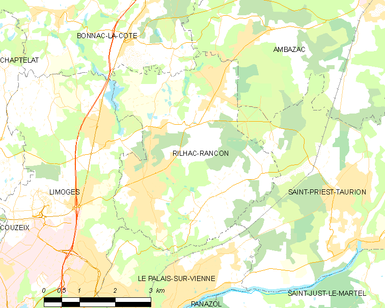 Map of French municipality Rilhac-Rancon